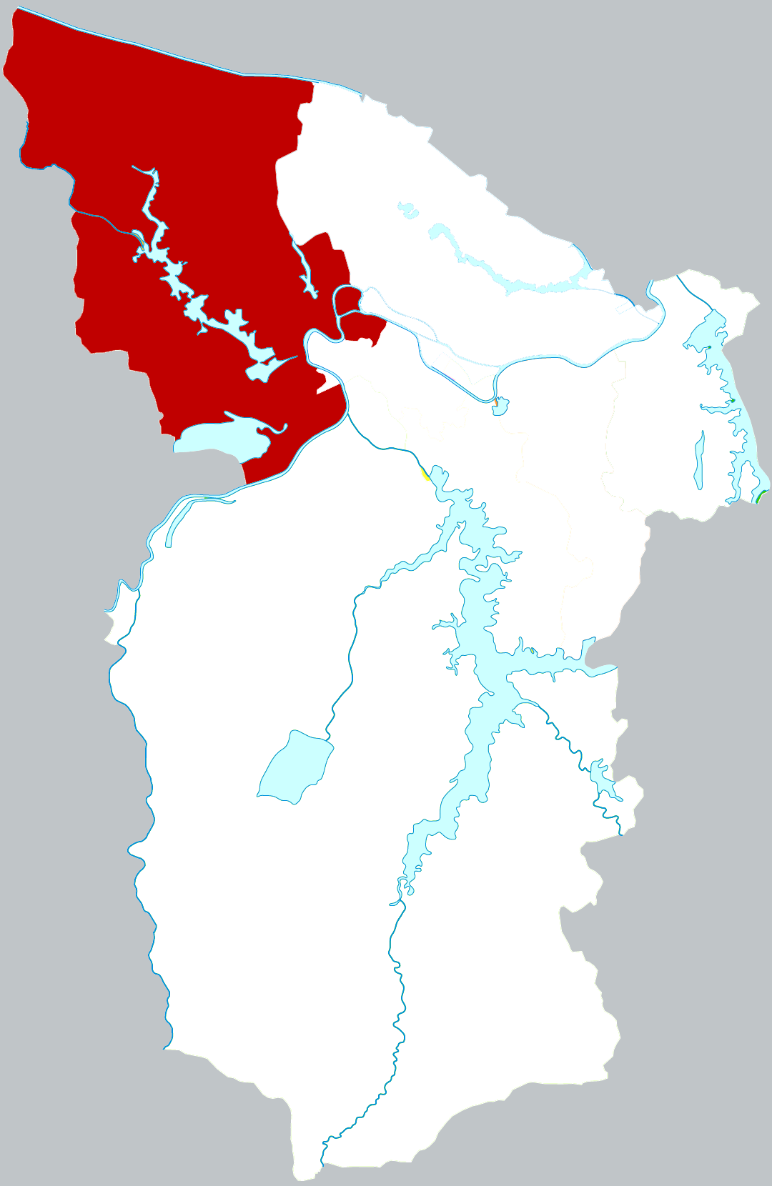 Location of Fengtai county in Huainan city, China